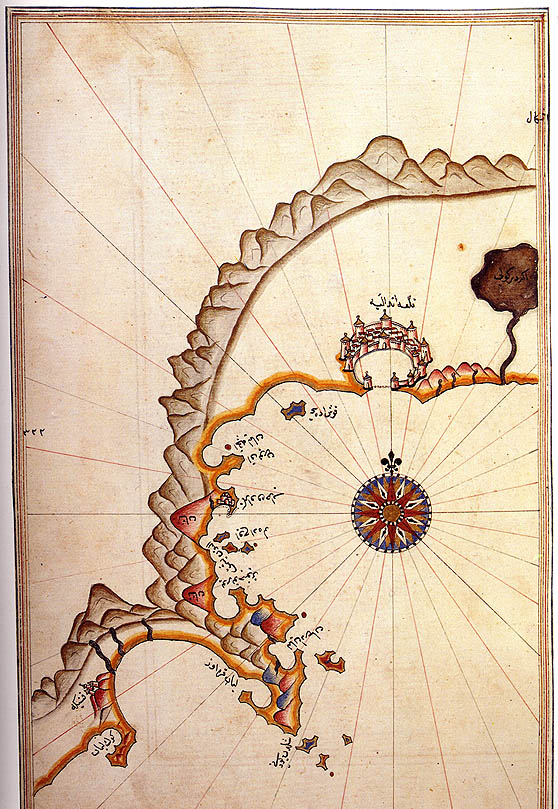 Port of Antalya and the coastal town of Kemer on the Kitab-Ä± Bahriye (Book of Navigation) of Piri Reis